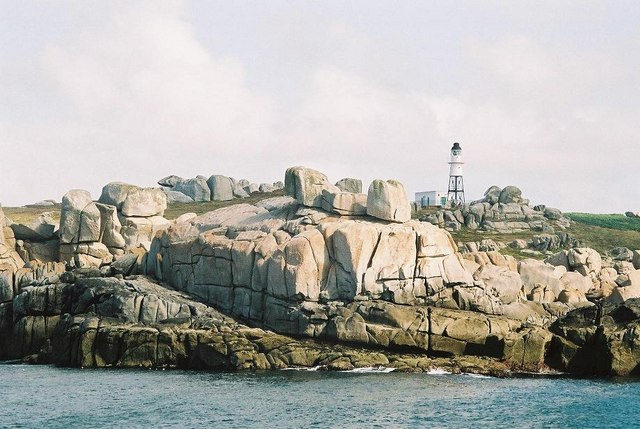 St. Mary’s: Peninnis Point Viewed from the ferry from Penzance shortly before arrival on the island.